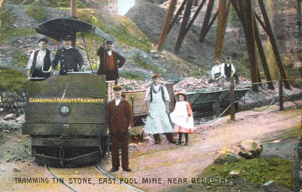 An electric tram locomotive and wagons at East Pool Mine near Redruth, Cornwall. The stone will be taken a short distance along the Camborne and Redruth to a processing area where the tin ore will be extracted.